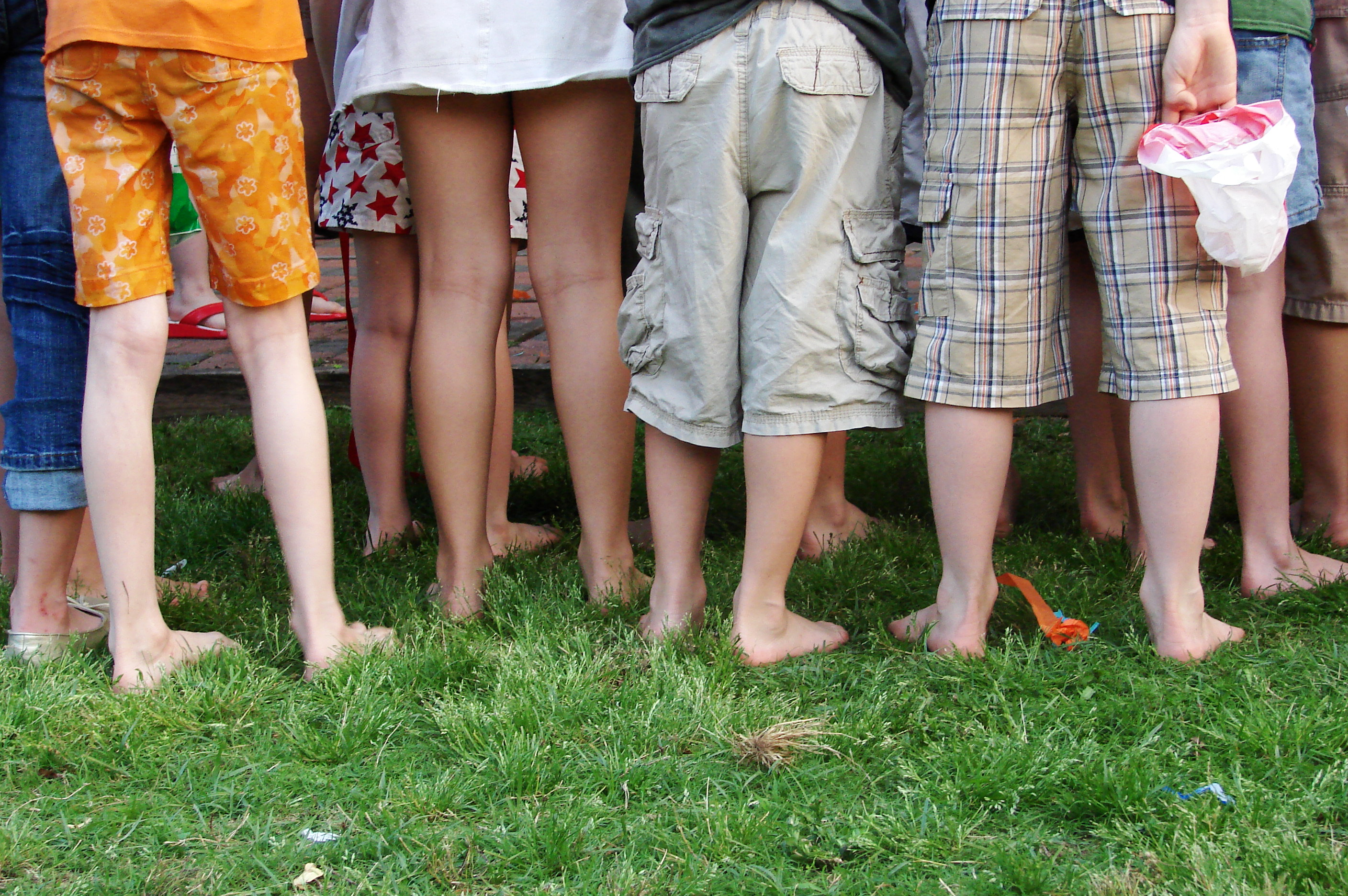 Children's legs and feet at an outdoor birthday party.